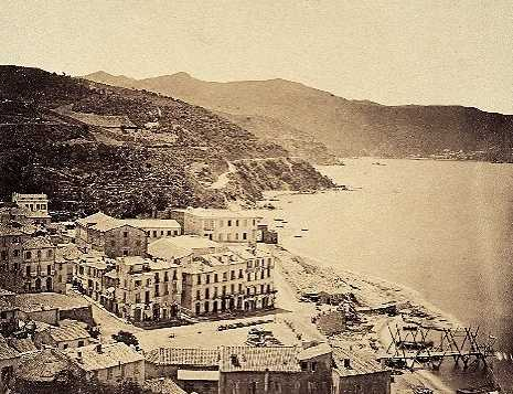 Philippeville and Stora